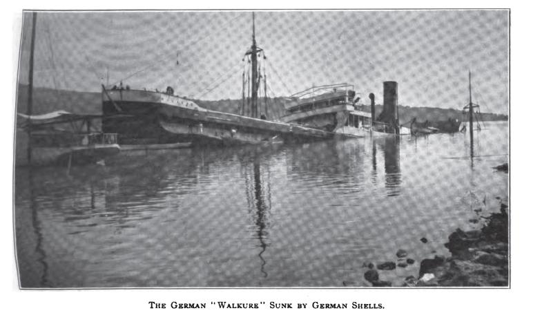 Captured German freighter Walkure sunk at Papeete